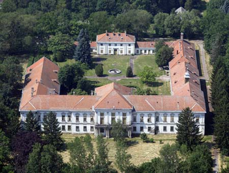 Nagyláng (Soponya), palace, Hungary, aerial photography